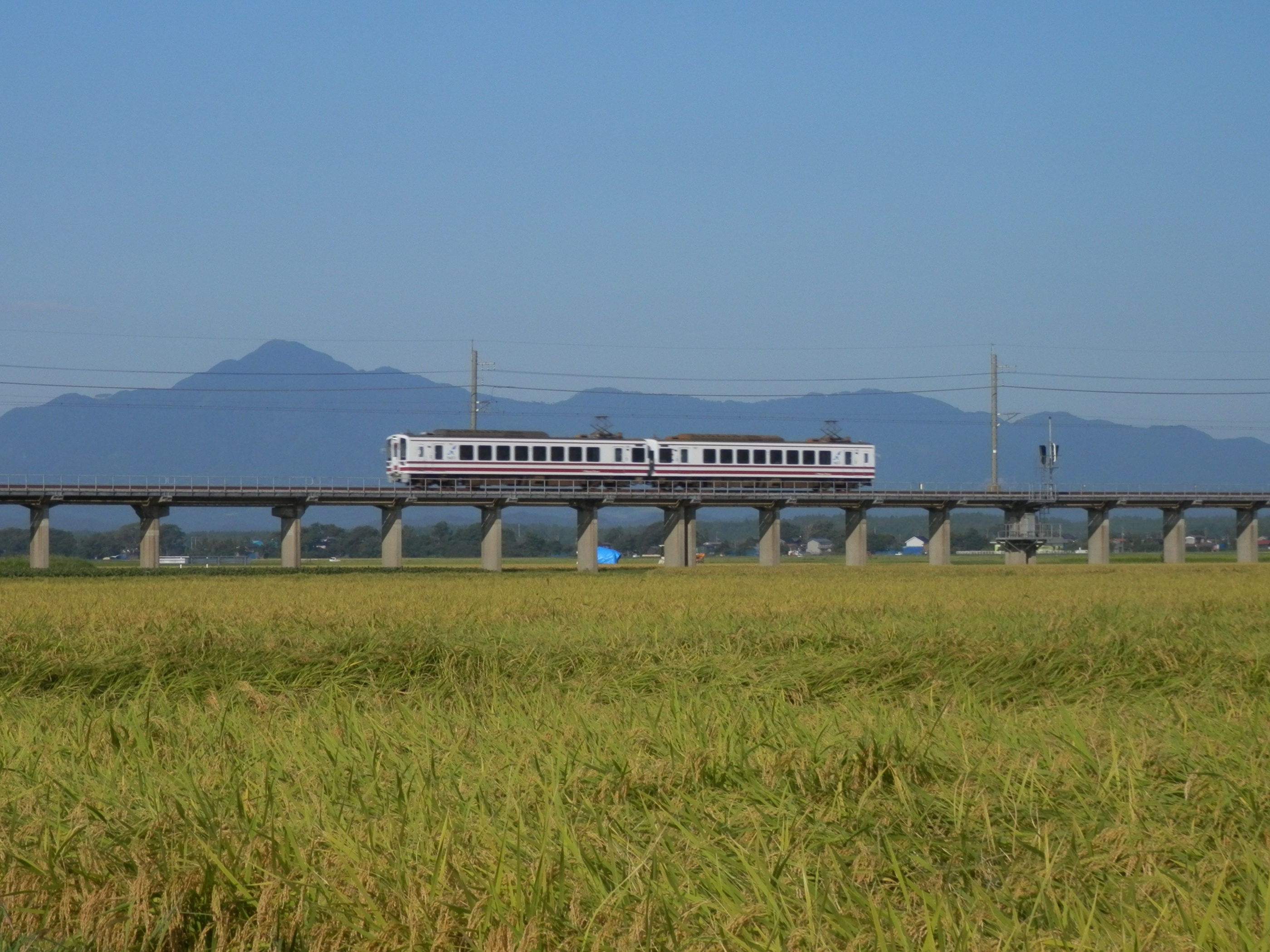 EMU of Hokuetsu Express Series HK-100 at Kubiki